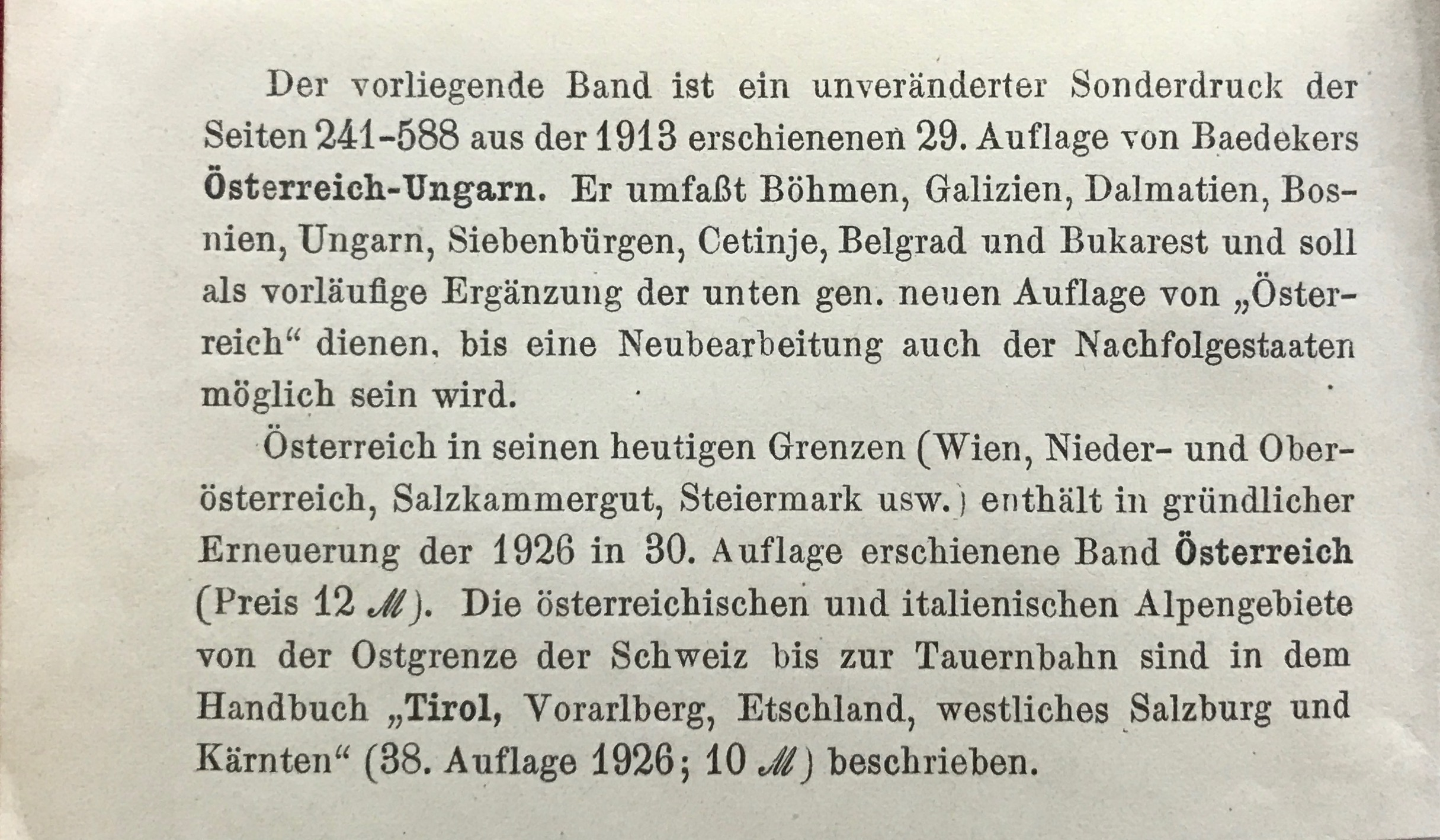 Notice list for the Baedeker "Österreich-Ungarn (Ohne das heutige Österreich)" 29. edition (1926)